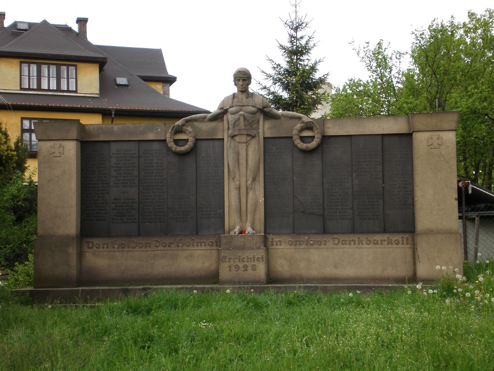 Hranice (Cheb District), WW1 Memorial